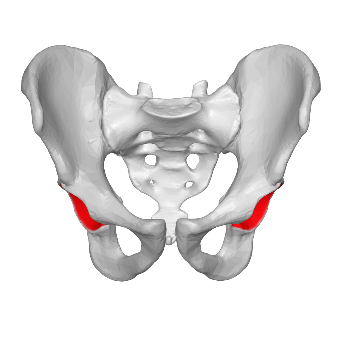 Acetabulum. Shown in red.